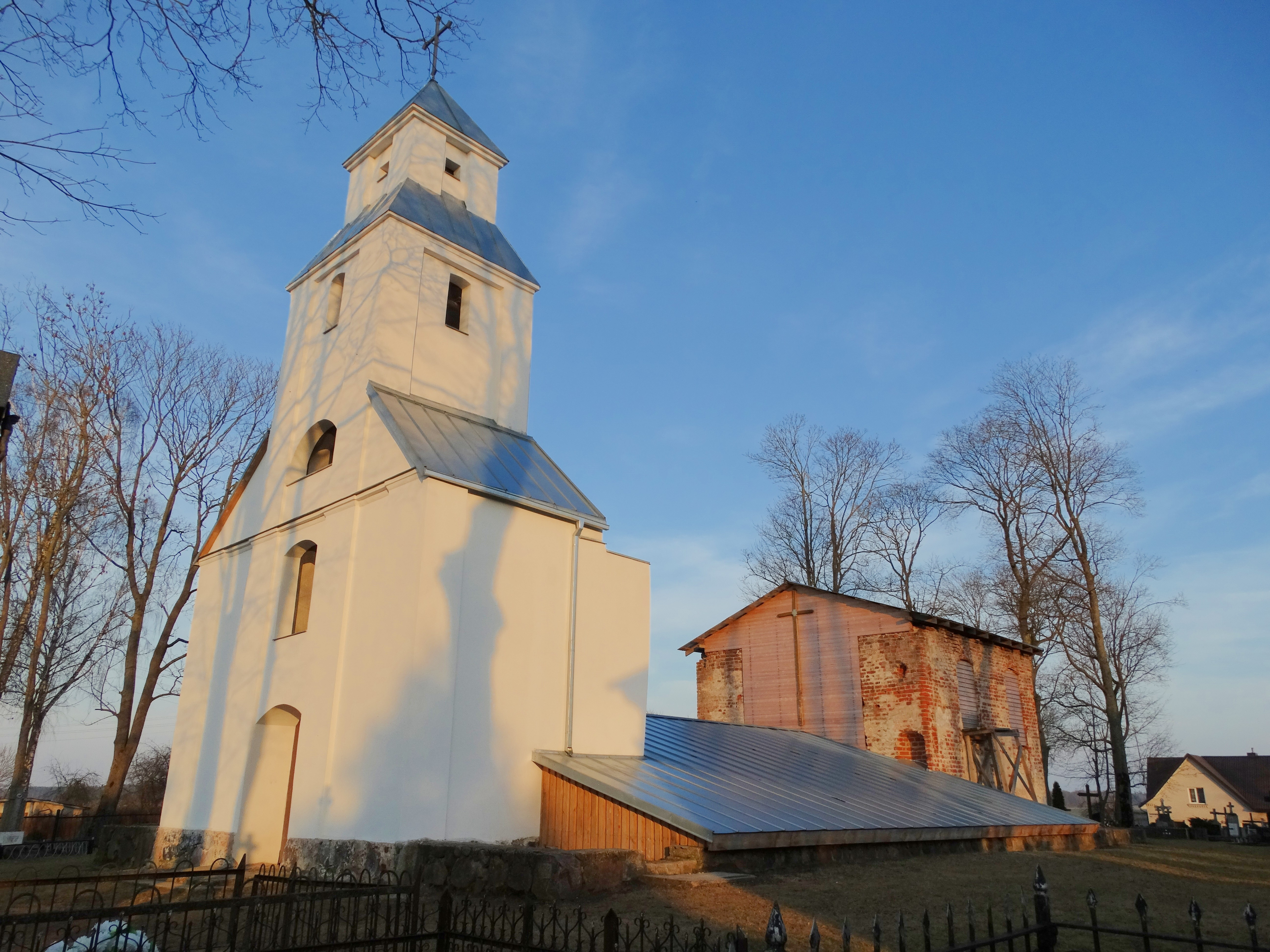 Old church remains, Kulva, Jonava district, Lithuania